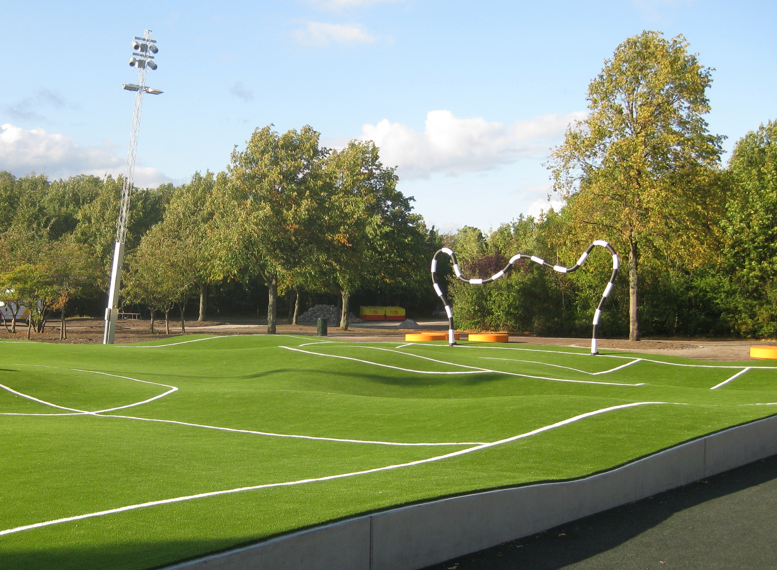 Undulated soccer pitch in Kroksbäck, Malmö, Sweden